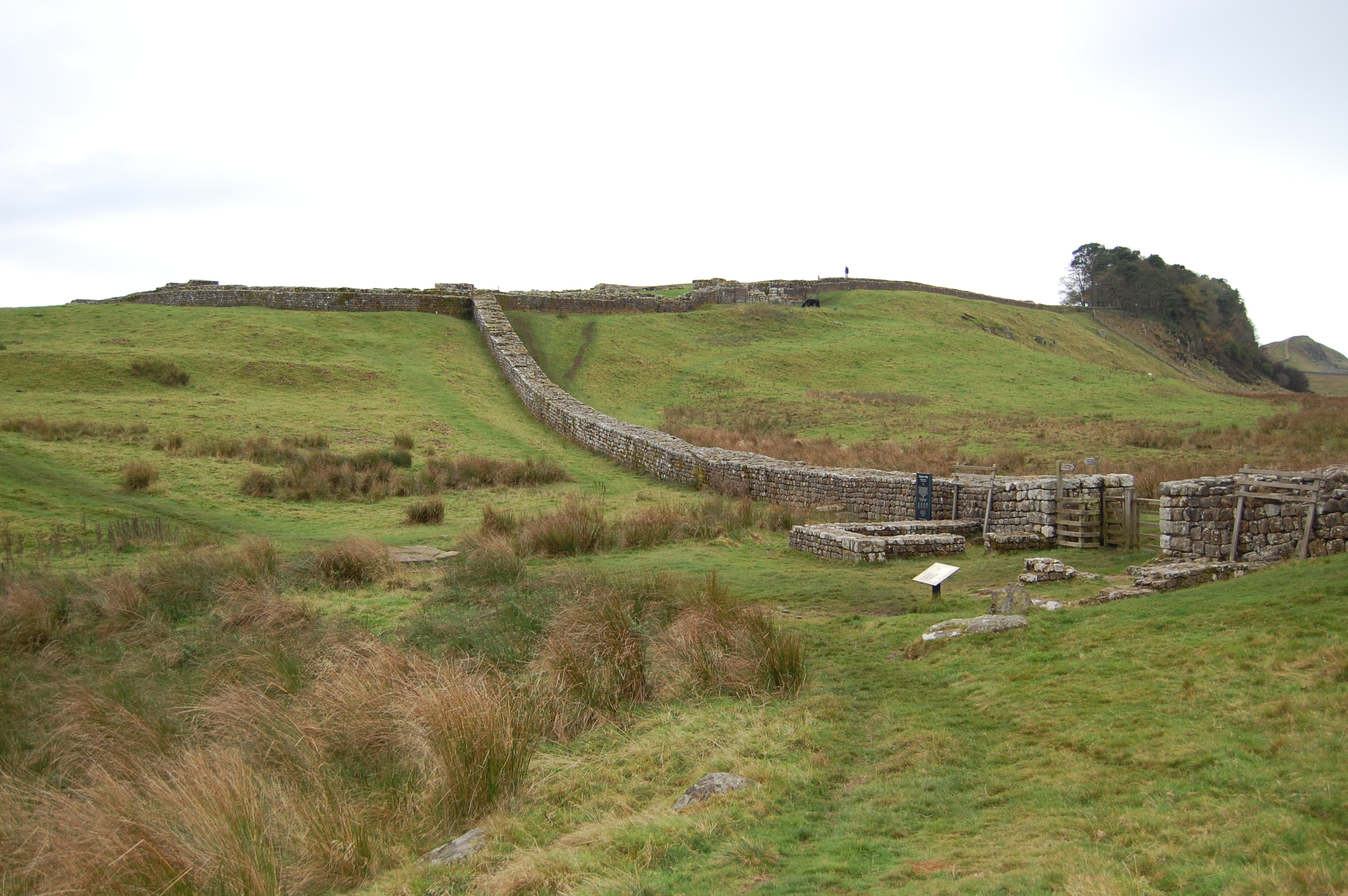 A stretch of Hadrian's Wall running from the Knag Burn gate up to the Roman Fort near Housesteads.